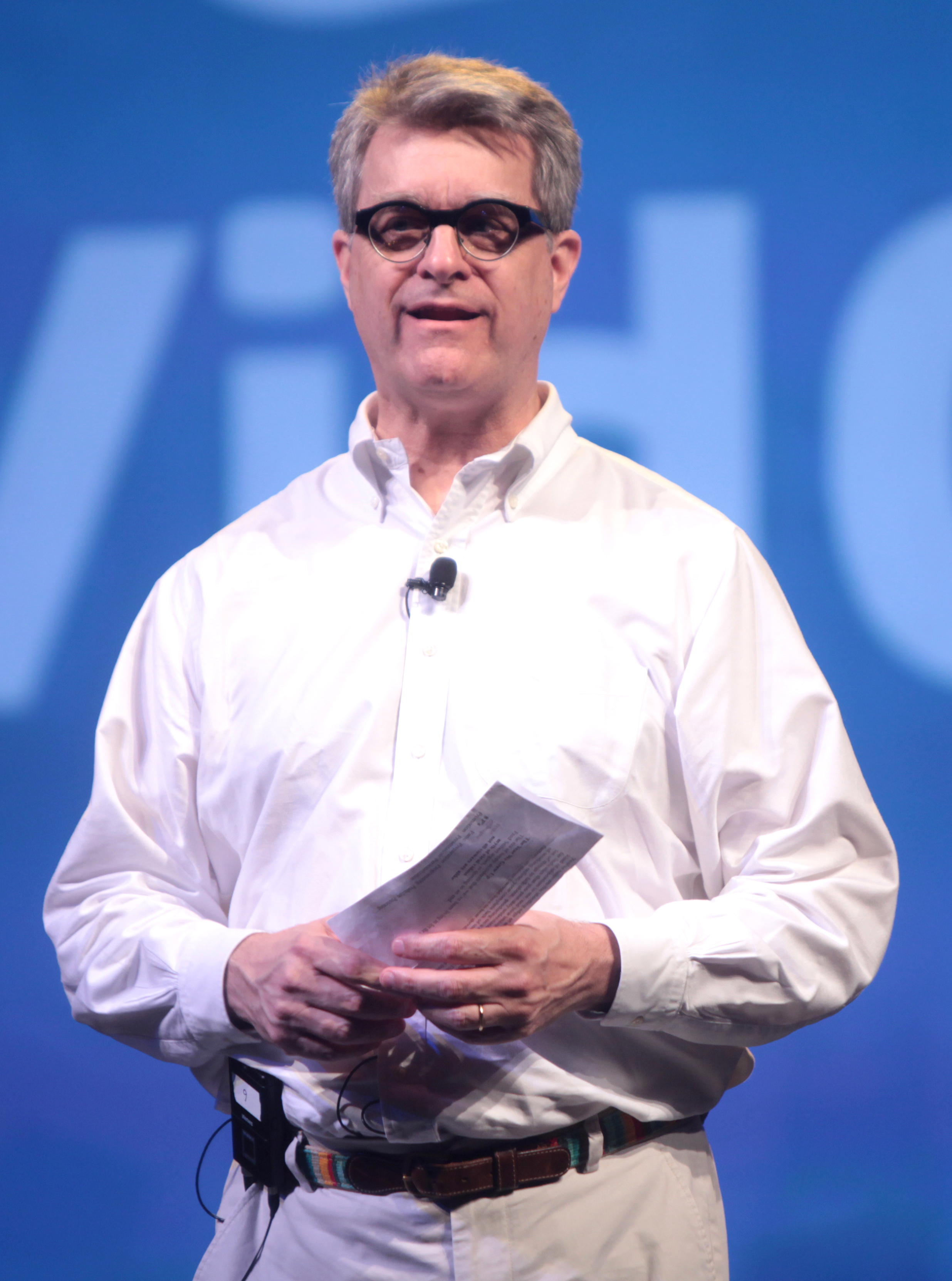 Fred Seibert speaking at the 2014 VidCon on June 28, 2014.